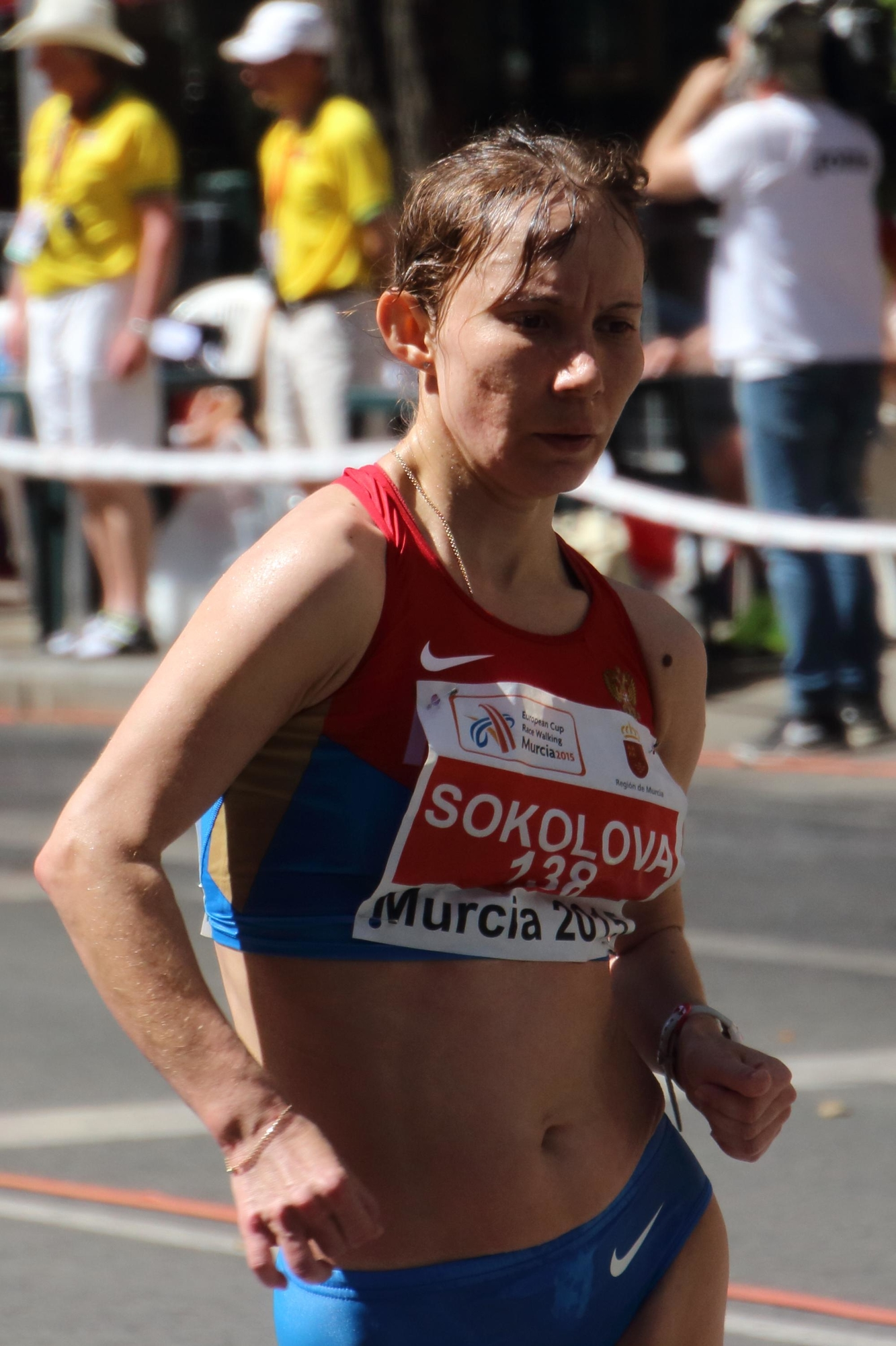 Vera Sokolova, russian race walker, in the European Cup Race Walking 2015 (Murcia, Spain).